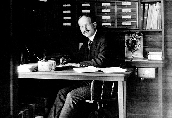 American astronomer George Ellery Hale (1868-1938) in his office at Mount Wilson Observatory, about 1905.